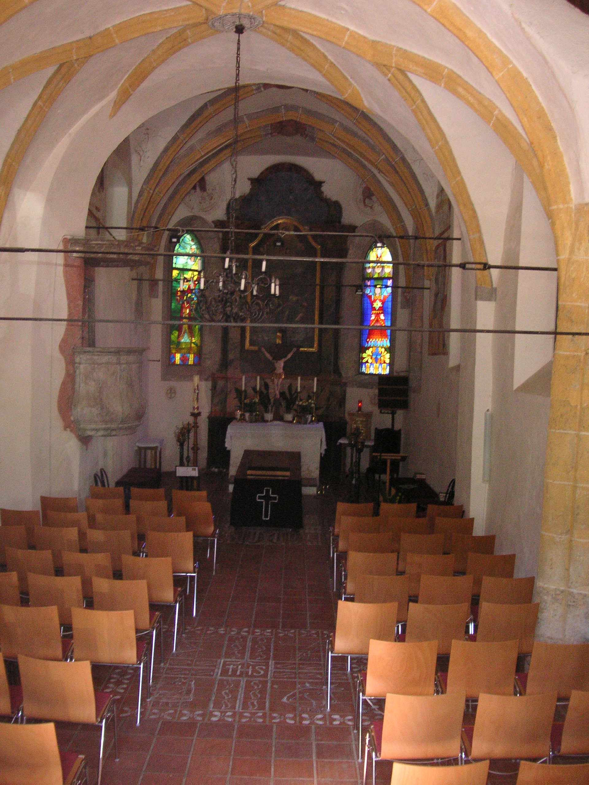 The old church of Sankt Bartholomä, Austria, inside